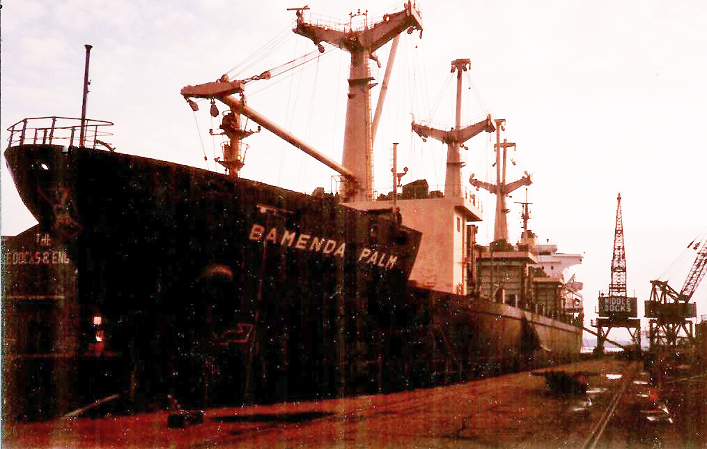 MV Bamenda Palm undergoing refit in Middle Docks, South Shields, UK (May 1985) as part of her undertaking a long charter to Lloyd Brasiliero